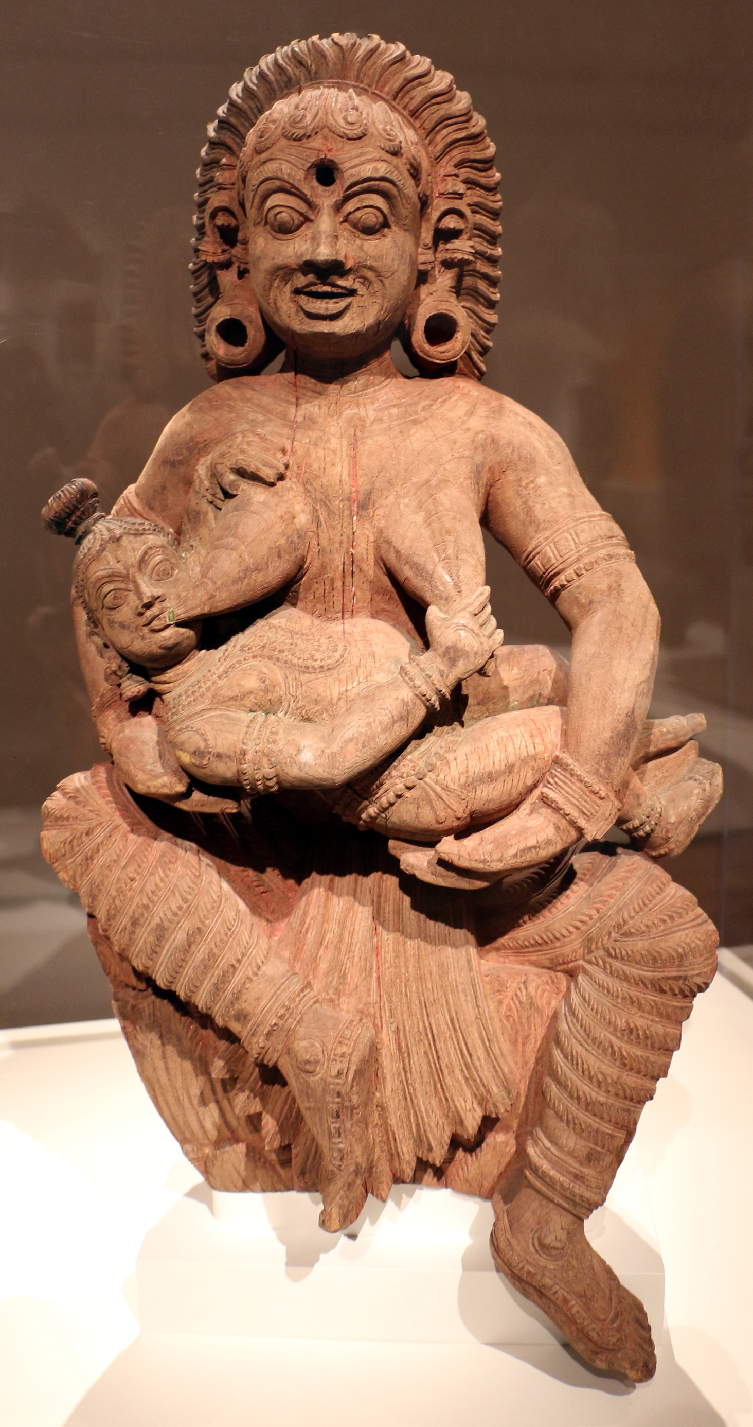 Art of India in the Art Institute of Chicago